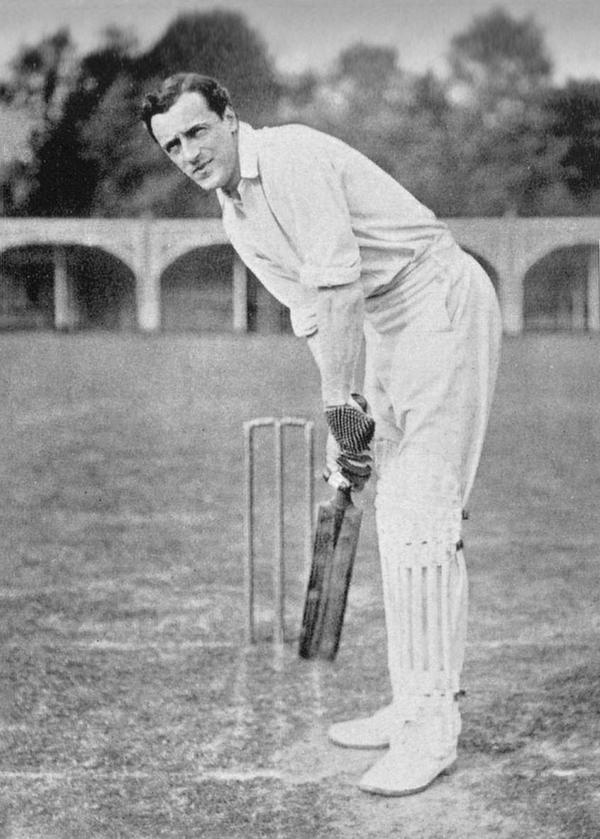 B J T Bosanquet batting stance, photographer by George Beldam